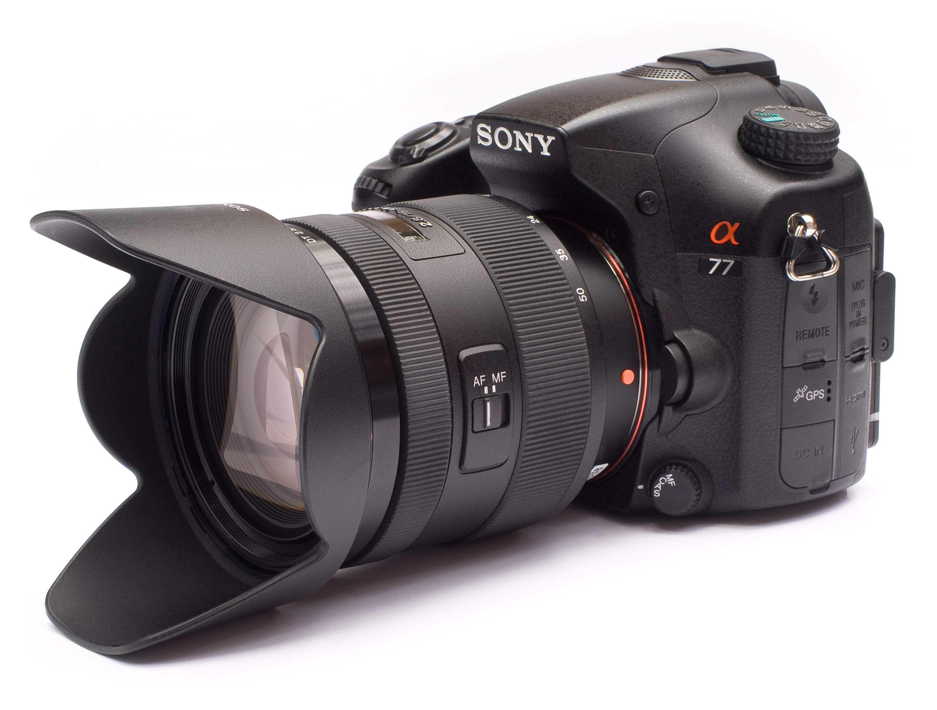 Sony Alpha A77 with 16-50mm f/2.8 SSM lens.